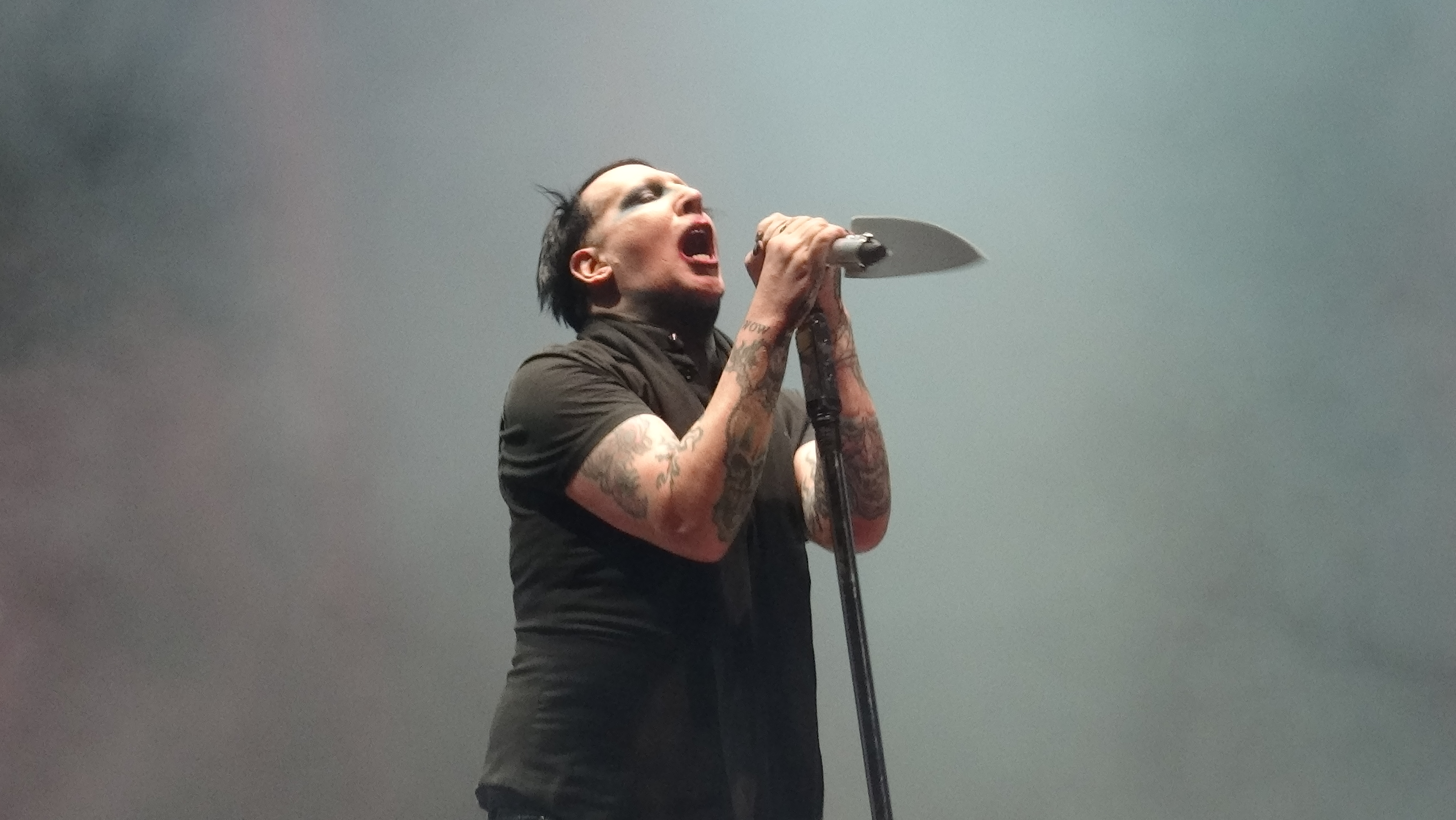 Marilyn Manson Live in Roma 25 july 2017